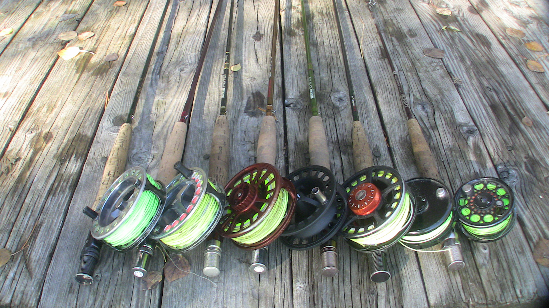 7 fly fishing rods sitting together. A variety of brands including Redington, Sage, G-Loomis and others.